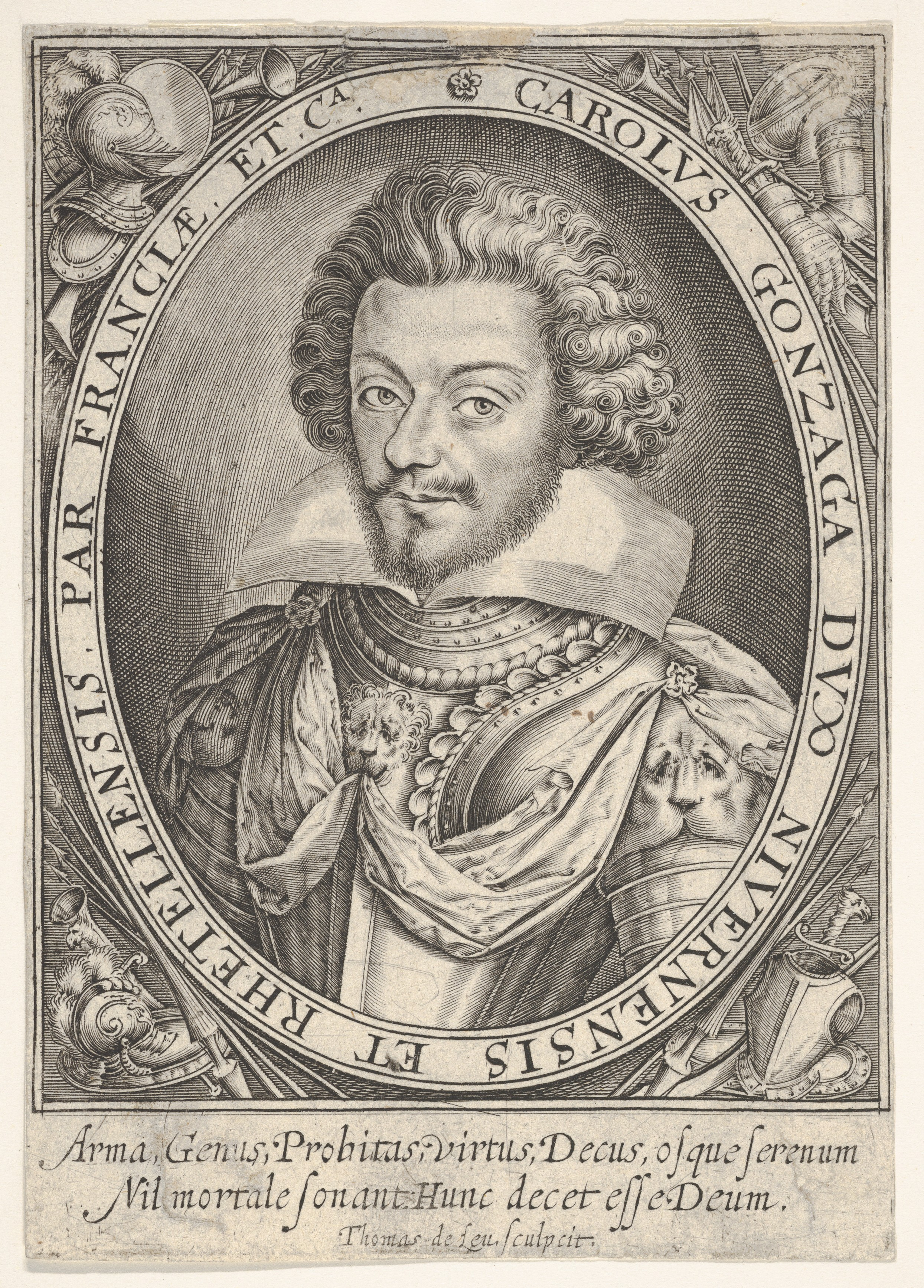 Print; Prints